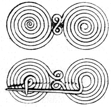 Fibula from the Hallstatt culture.